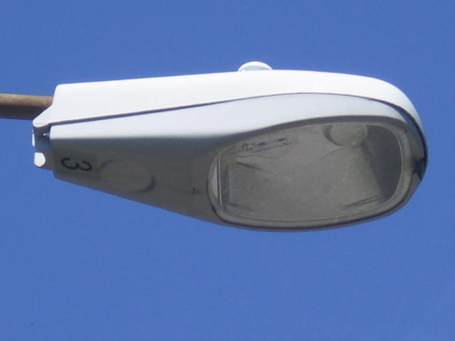 History of street lighting - Crouse hinds, OVC, Rare 35 watt full cutoff version found in Westwood, Massachusetts